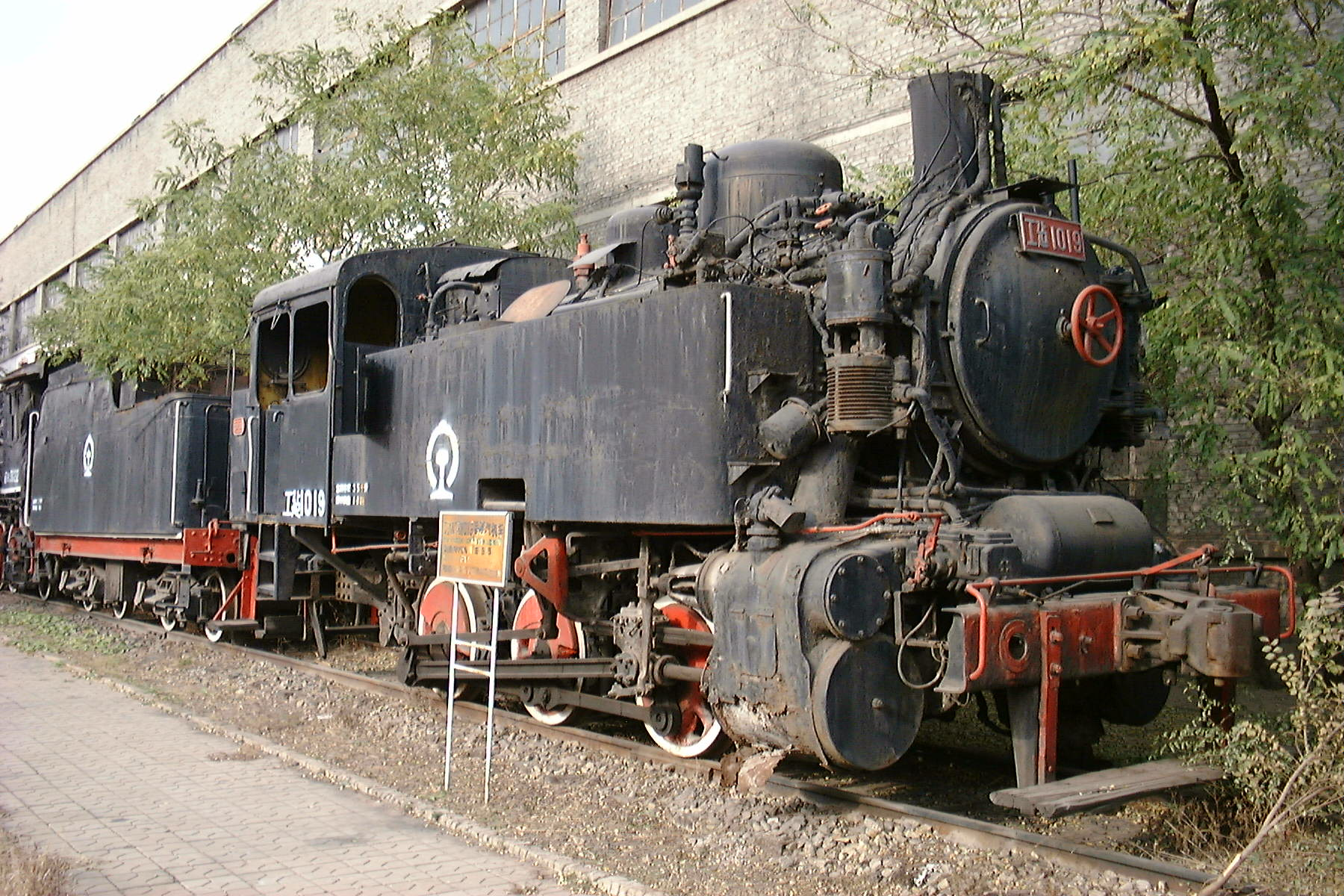 Datong railway museum, Shanxi, China